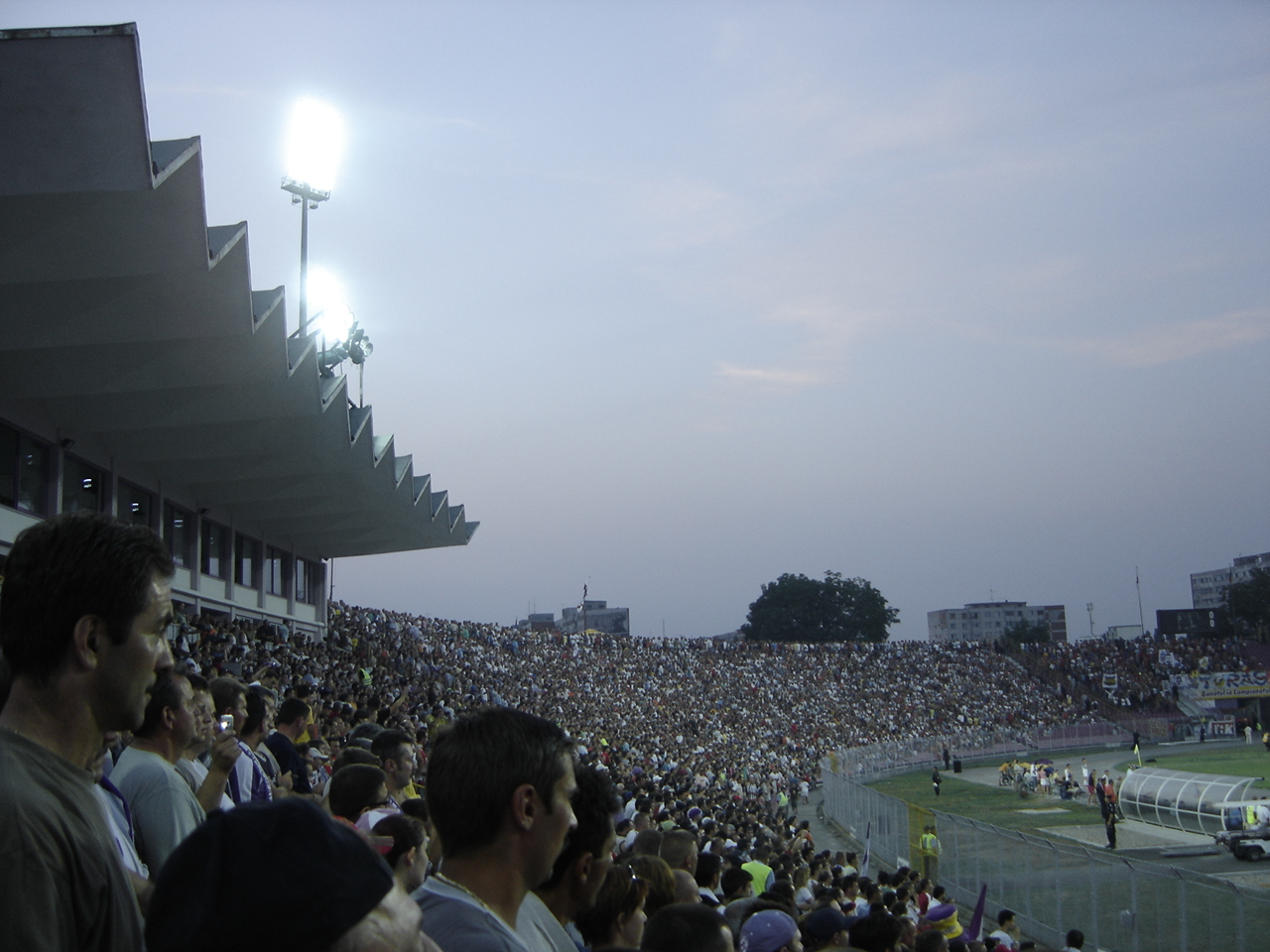 Dan Paltinisanu Stadium in Timişoara